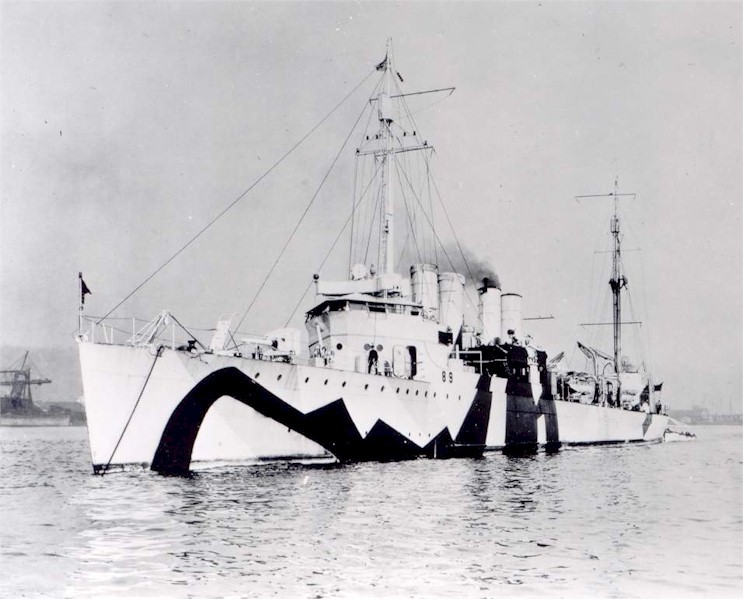 American Wickes class destroyer USS Ringgold (DD-89). Was transferred to Britain in 1940 and became HMS Newark.